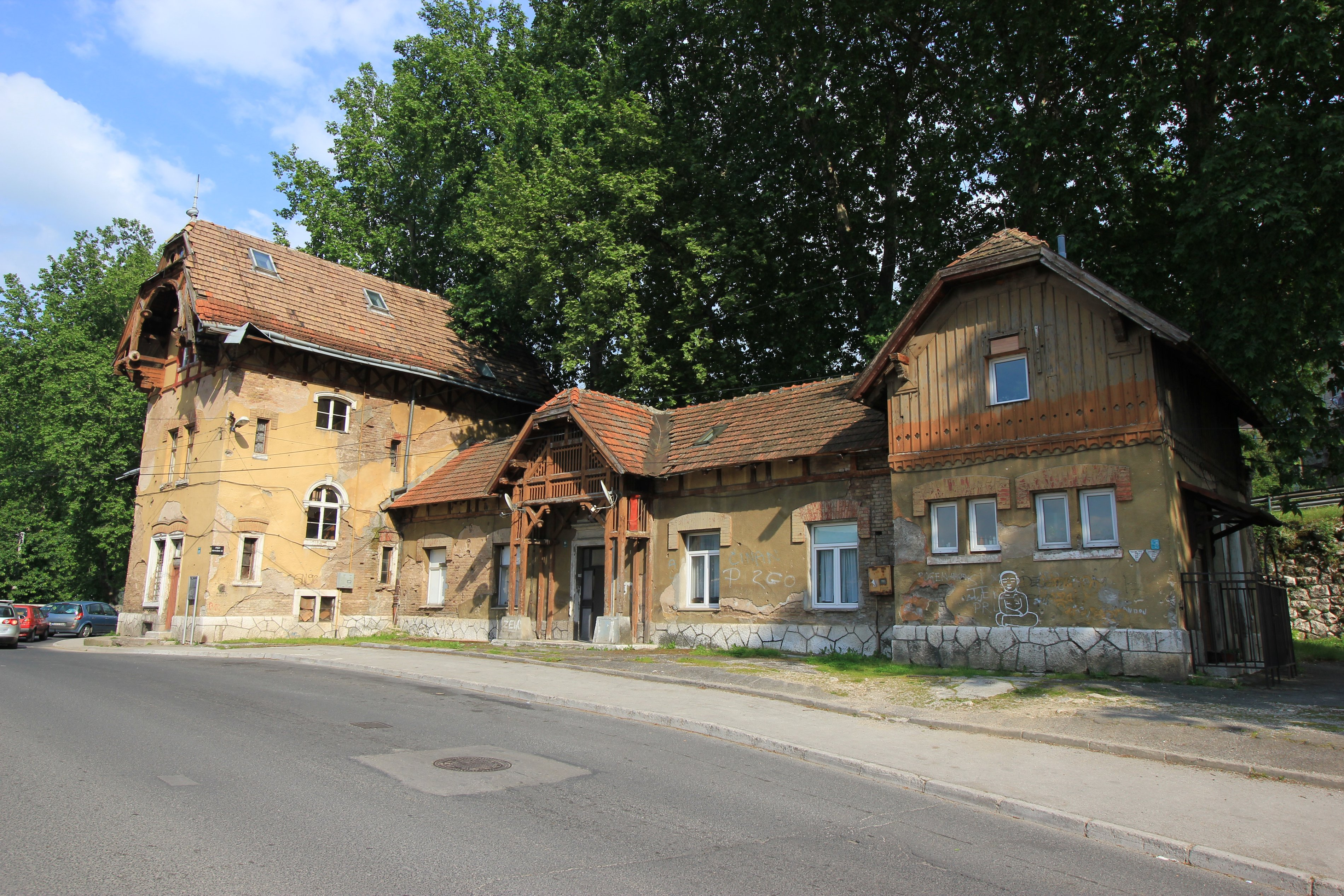 Former railway station Bistrik in Sarajevo.